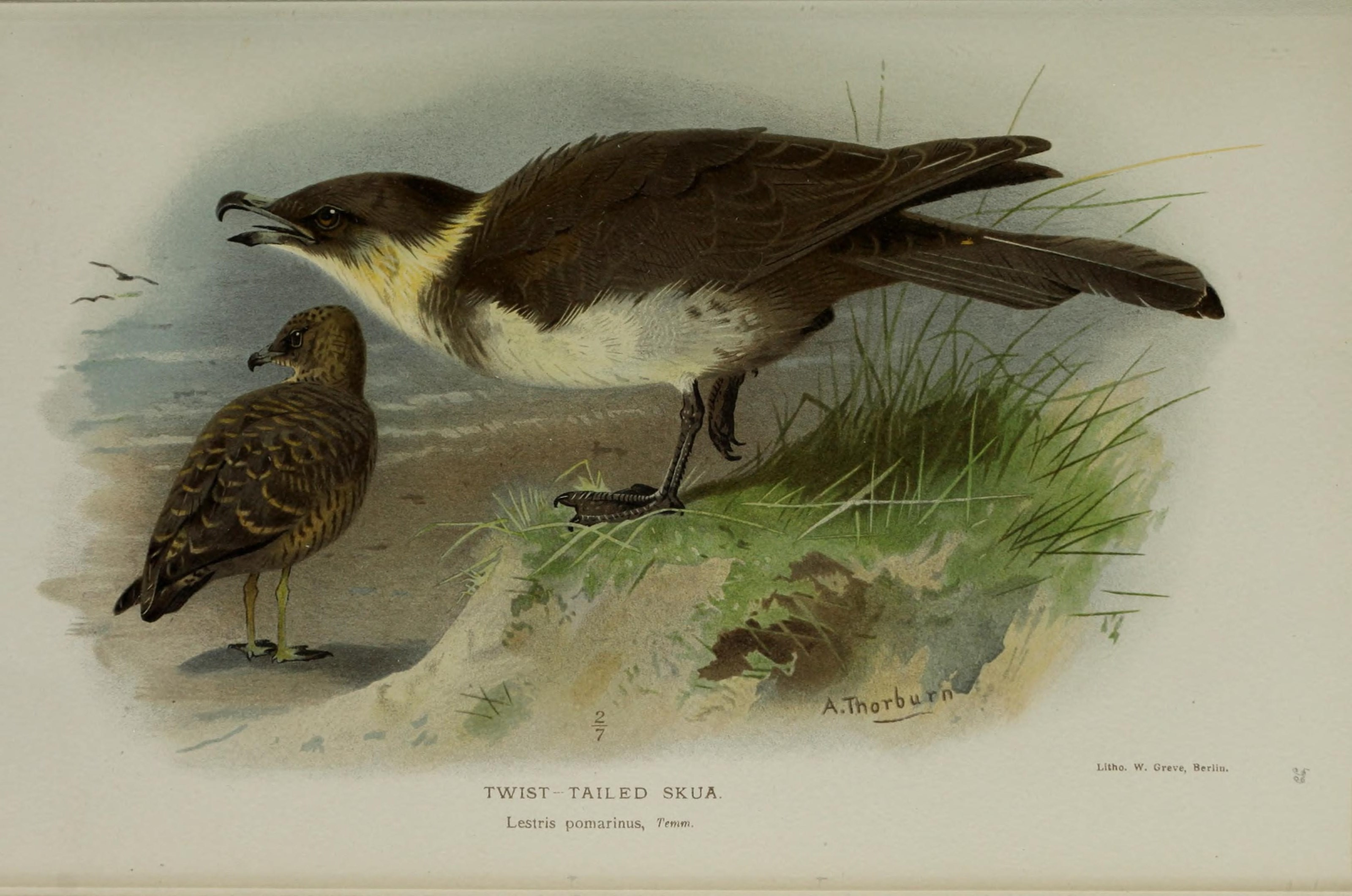 Coloured figures of the birds of the British Islands / issued by Lord Lilford.